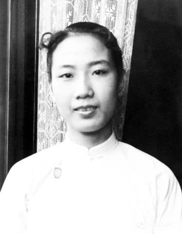 A portrait of Yuan Xuefen from the 1940s